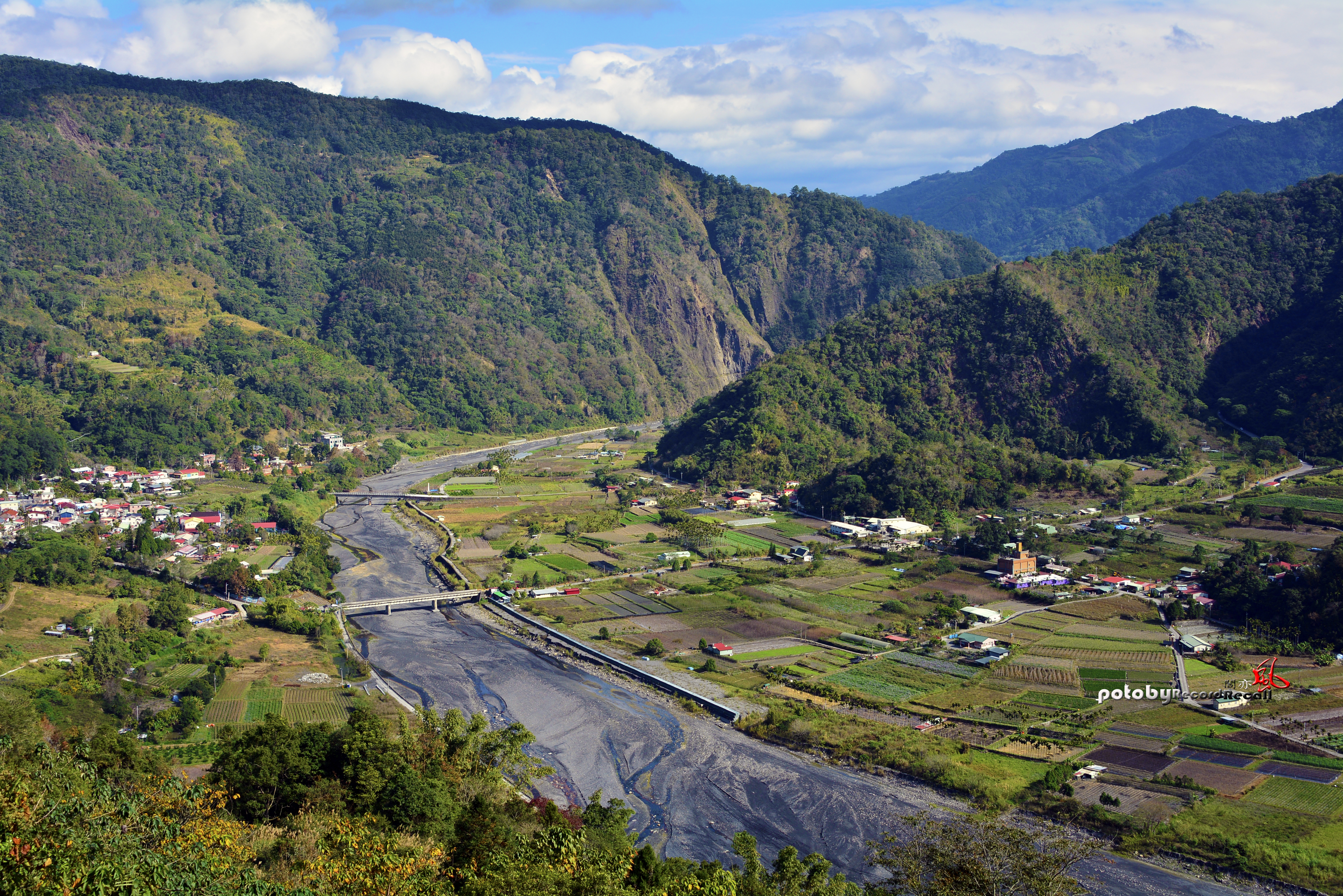 Wujie is one of the Bunun tribal villages in Nantou County, Taiwan. It was located on the Zhuoshui River, in the fertile alluvial plain between the Central Mountain Range and the Puli Basin Group.